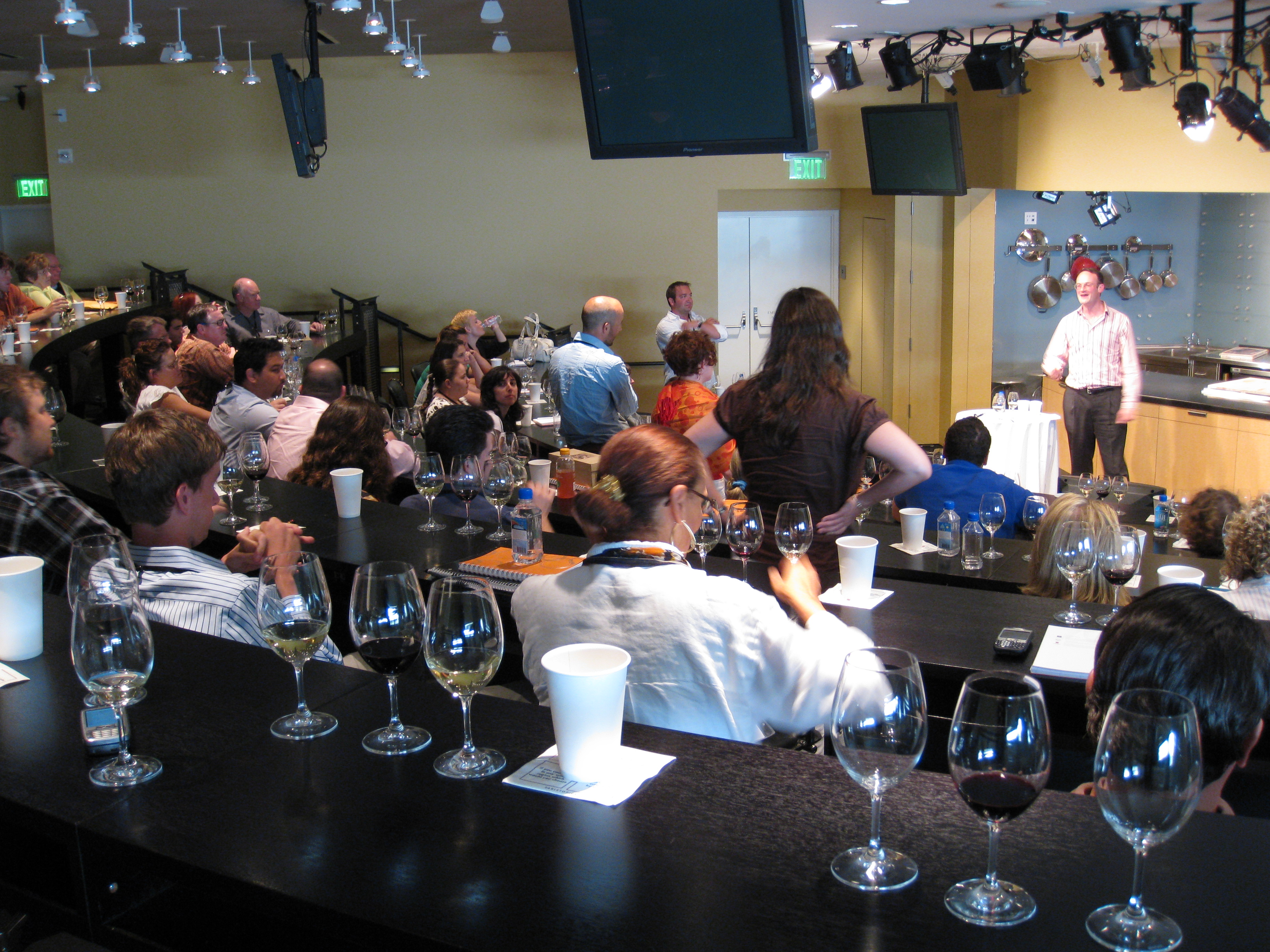 A tasting class/competition for sommeliers in the United States